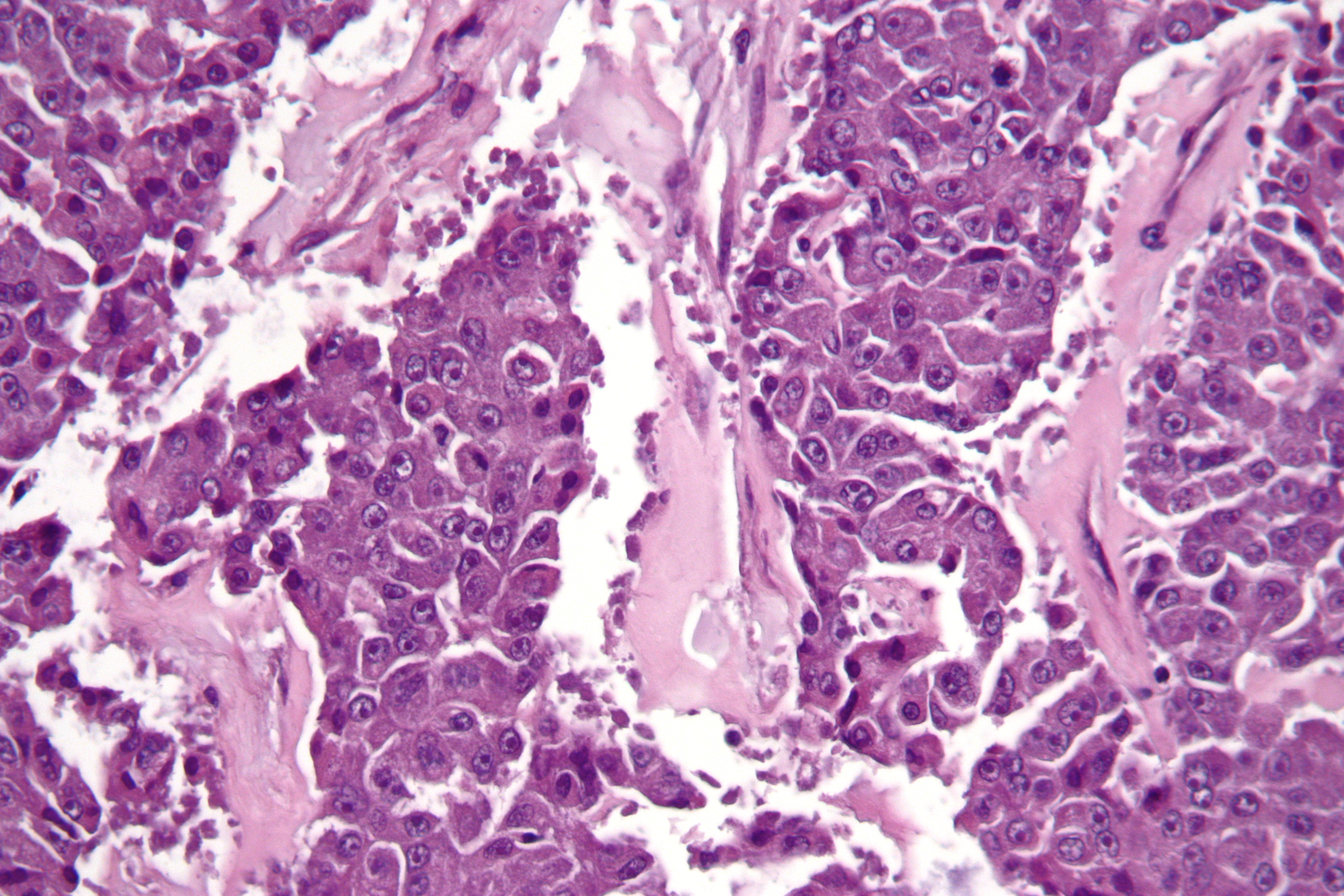 Very high magnification micrograph of a acinar cell carcinoma of the pancreas. H&E stain. Related images High mag. Very high mag.